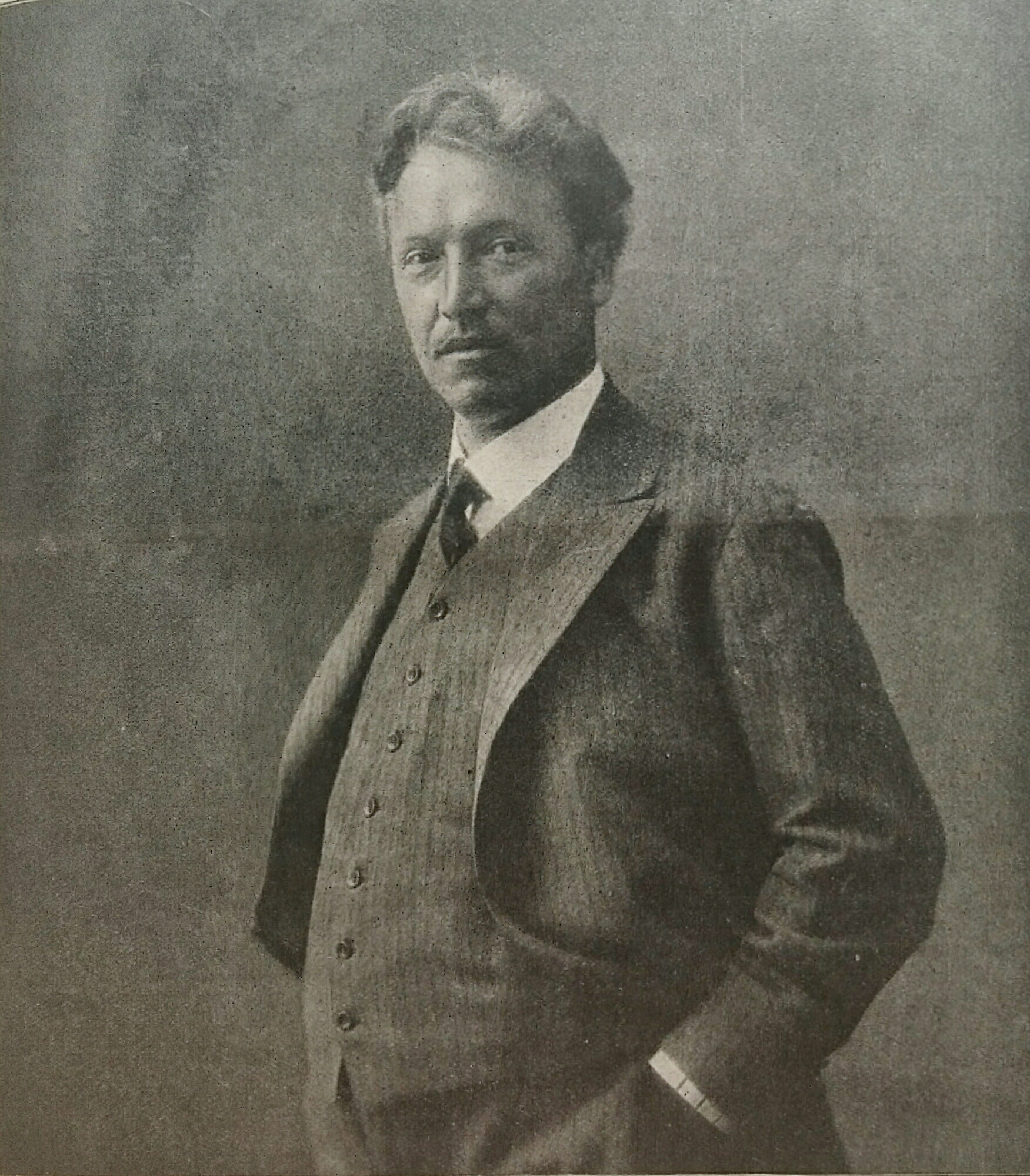 Gustav Habrman, reich mp for 25. vol district. (To his lectures in America)